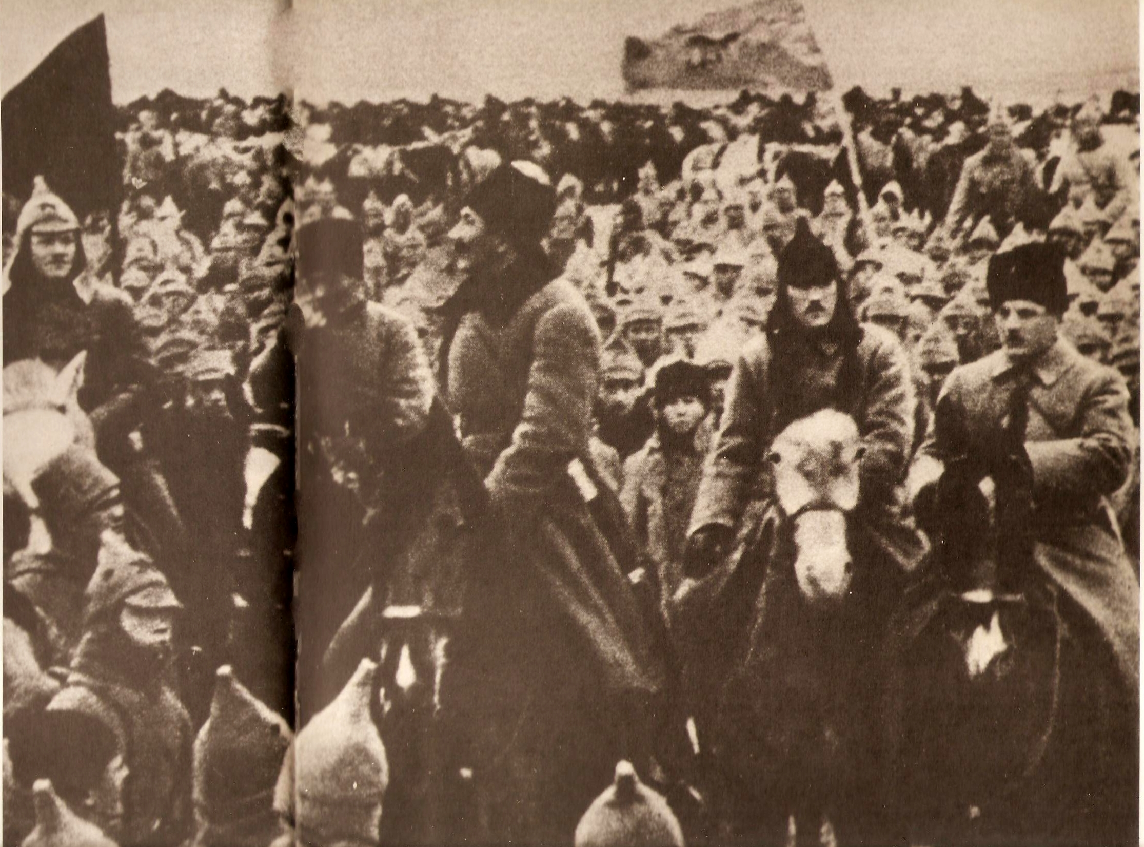 1st Cavalry Army in the Russian civil war